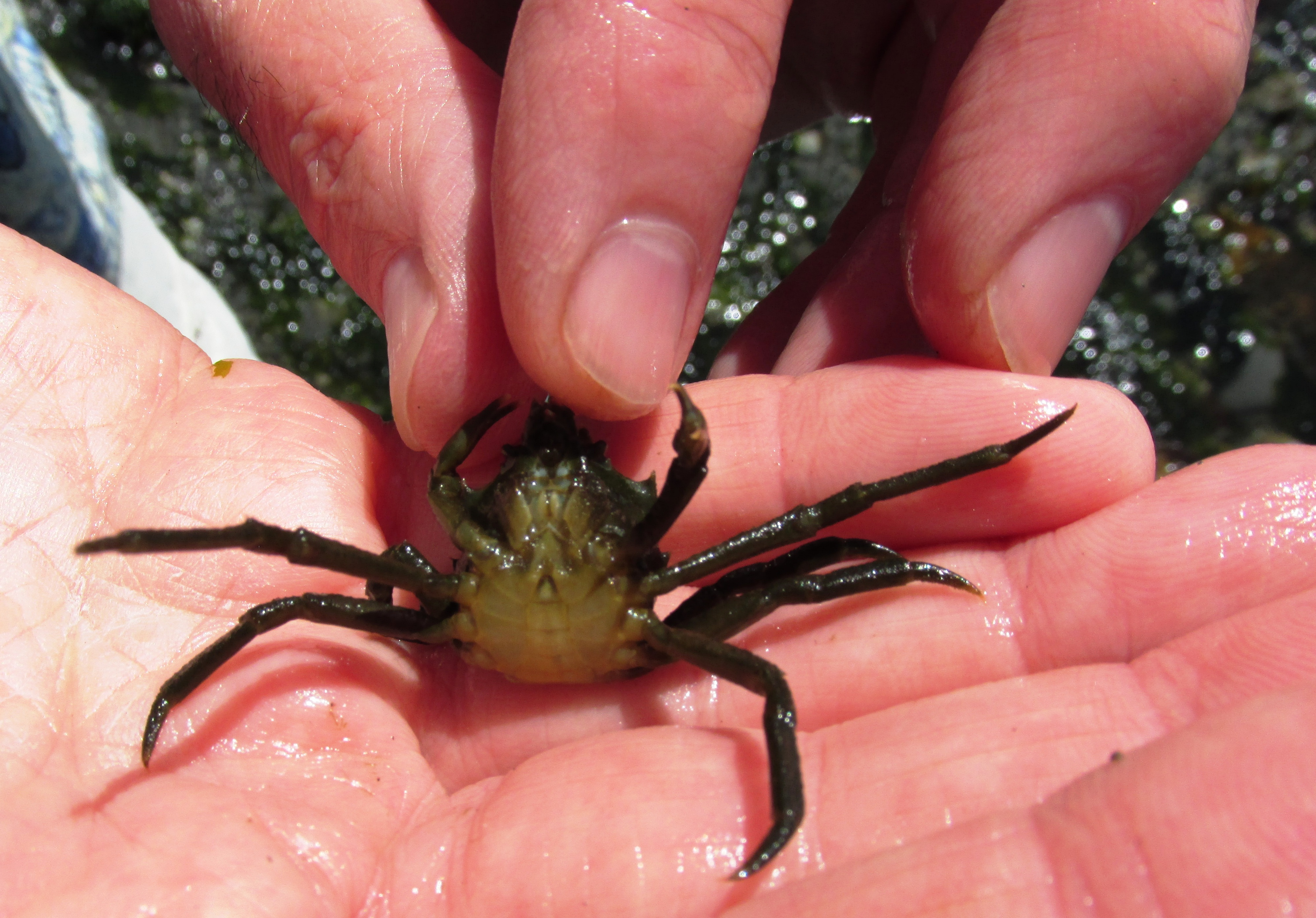 Kelp Crab Pugettia producta Edmonds Beach walk during -2.5 foot low tide of 7 June 2016 edm20160607 008